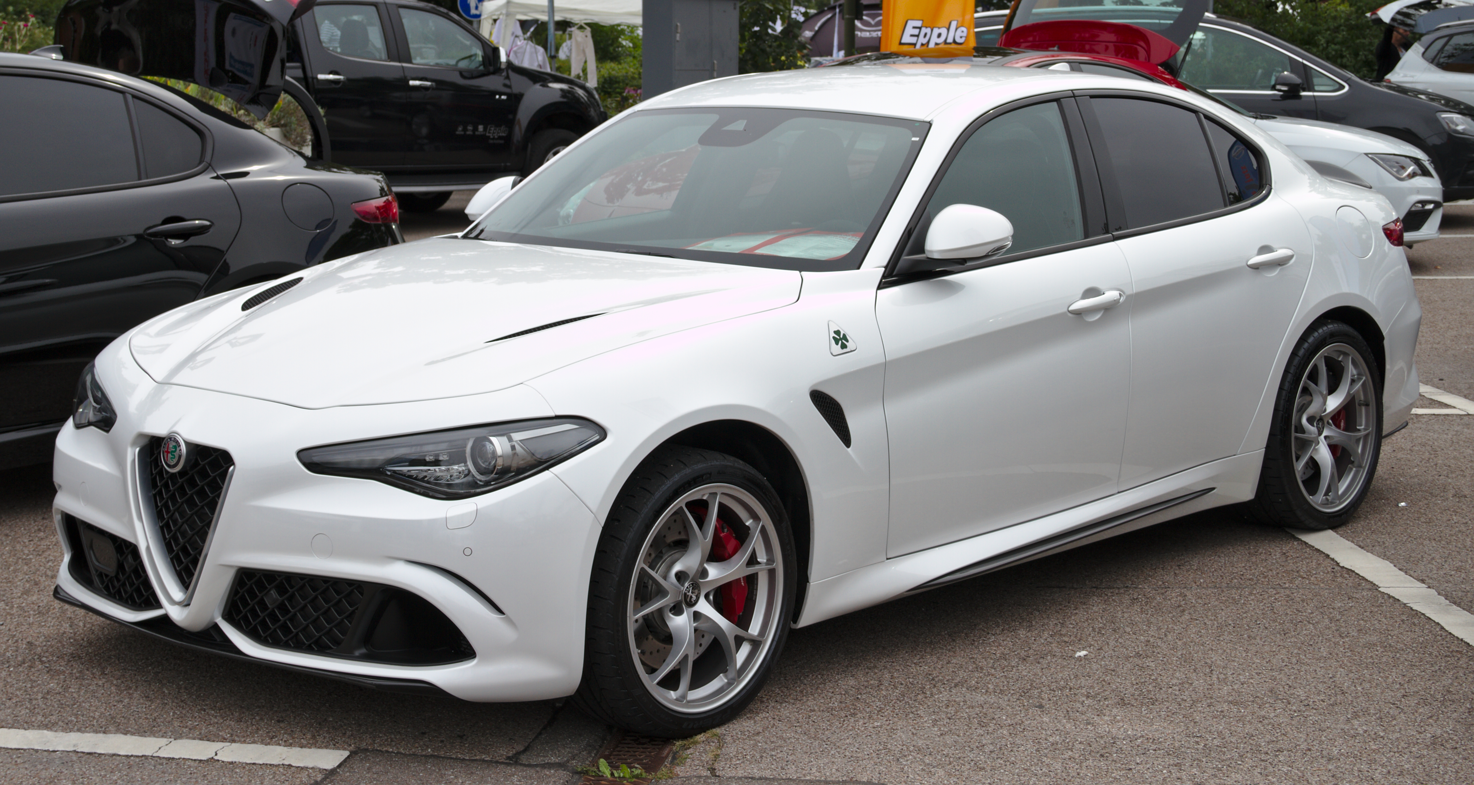 Alfa_Romeo_Giulia_Quadrifoglio at Leonberger Autoschau 2019